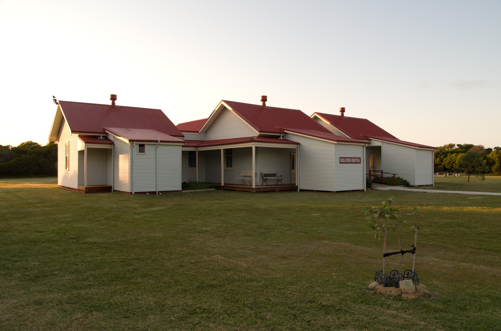 Isolation Hospital, Woodman point Quarantine Station